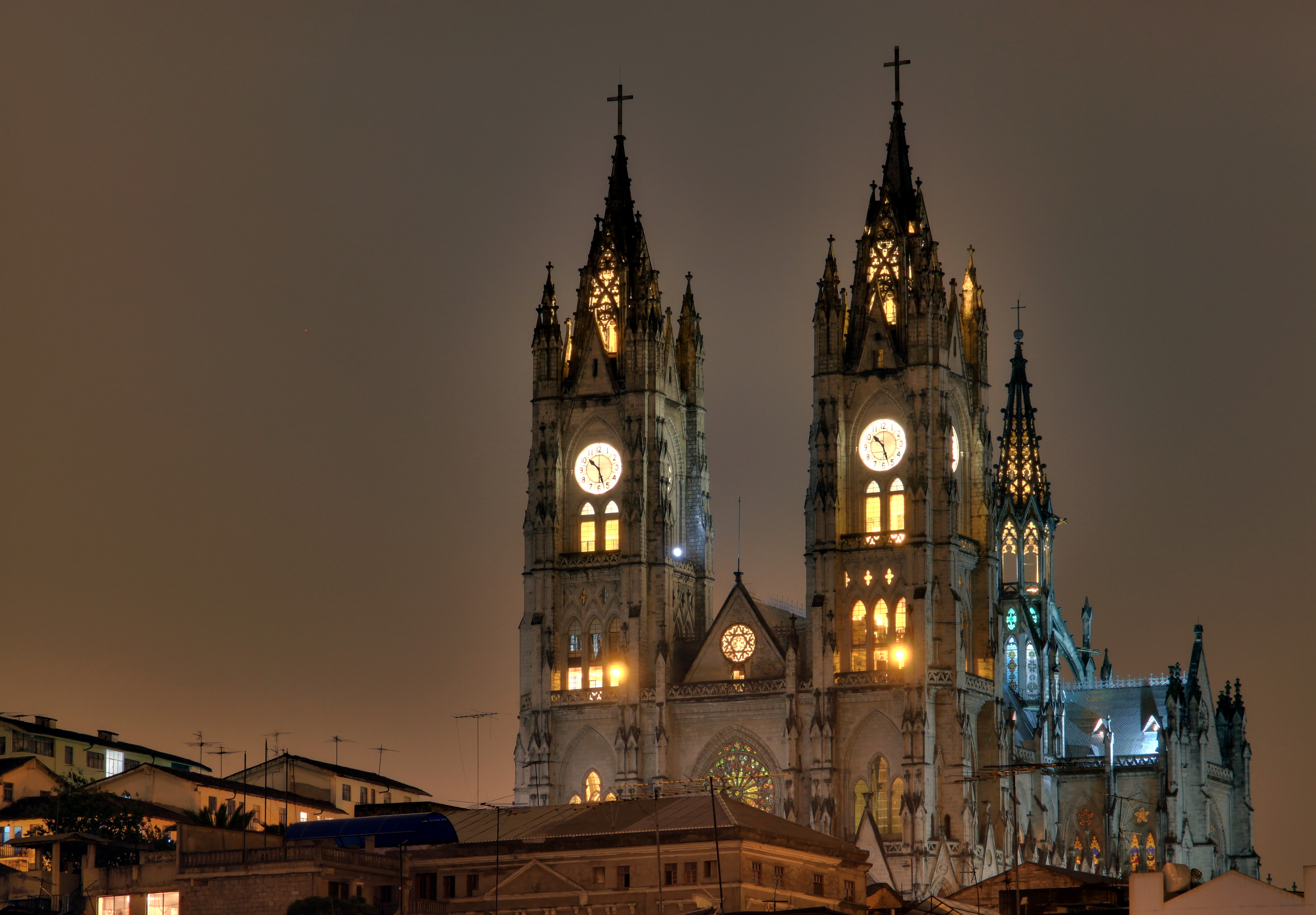 Please, have this description accessible to all by translating it in different languages.